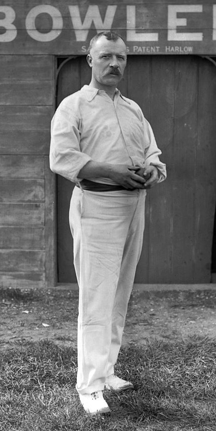 England and Yorkshire cricketer, Bobby Peel (1857 - 1941), the Wisden Cricketer of the Year 1889.